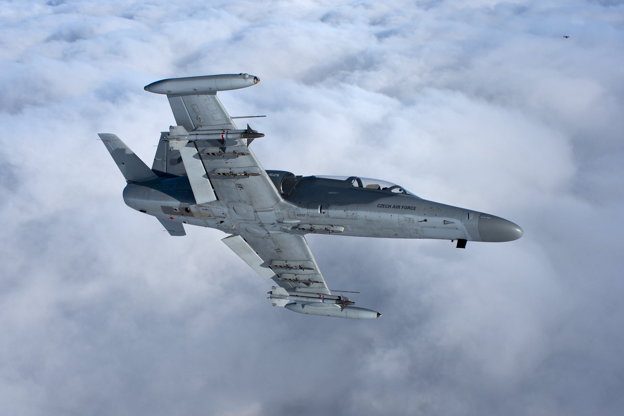 Czech Air Force Aero L-159